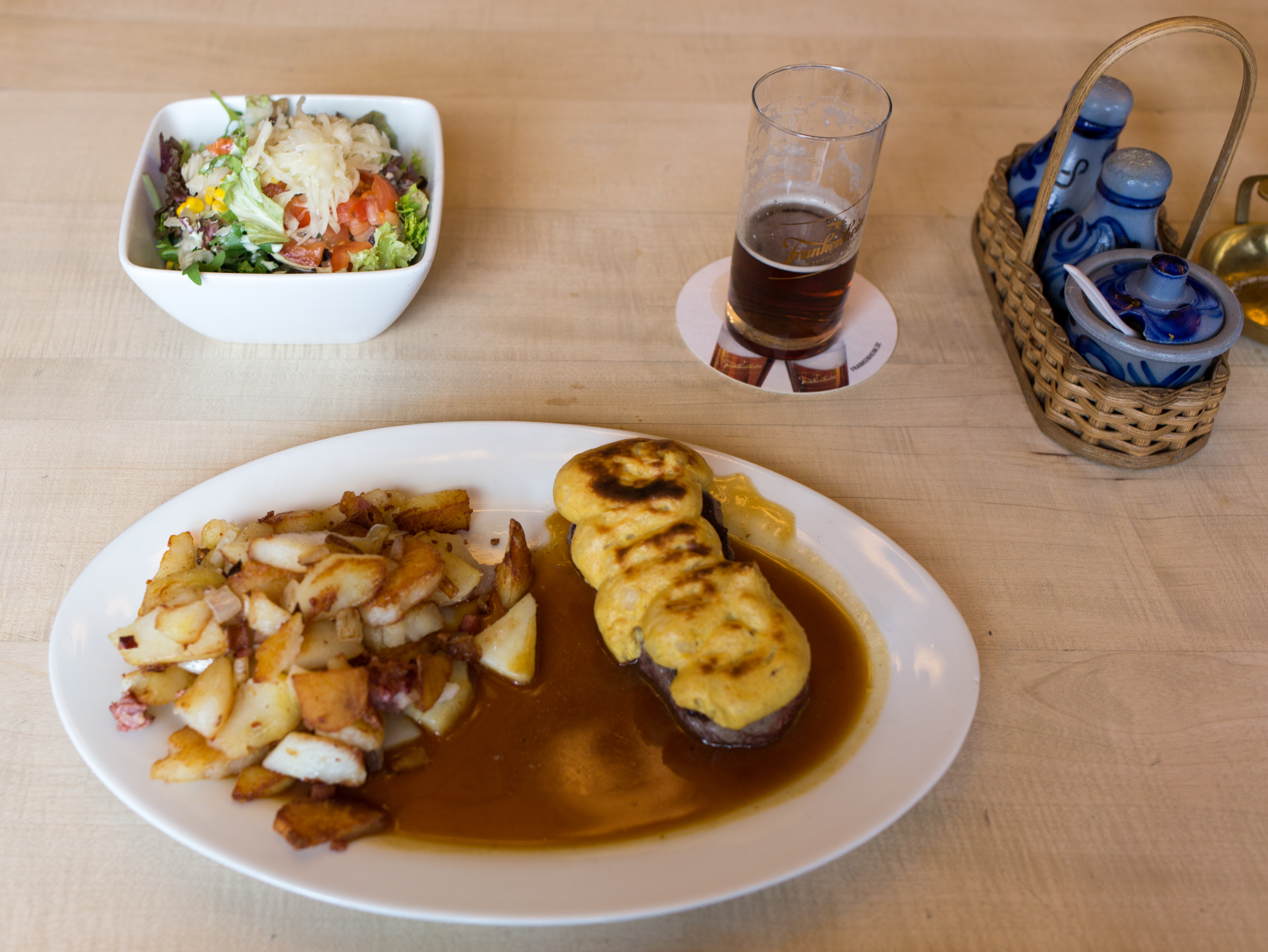 Image of a Düsseldorfer Senfrostbraten taken at "Im Goldenen Ring".